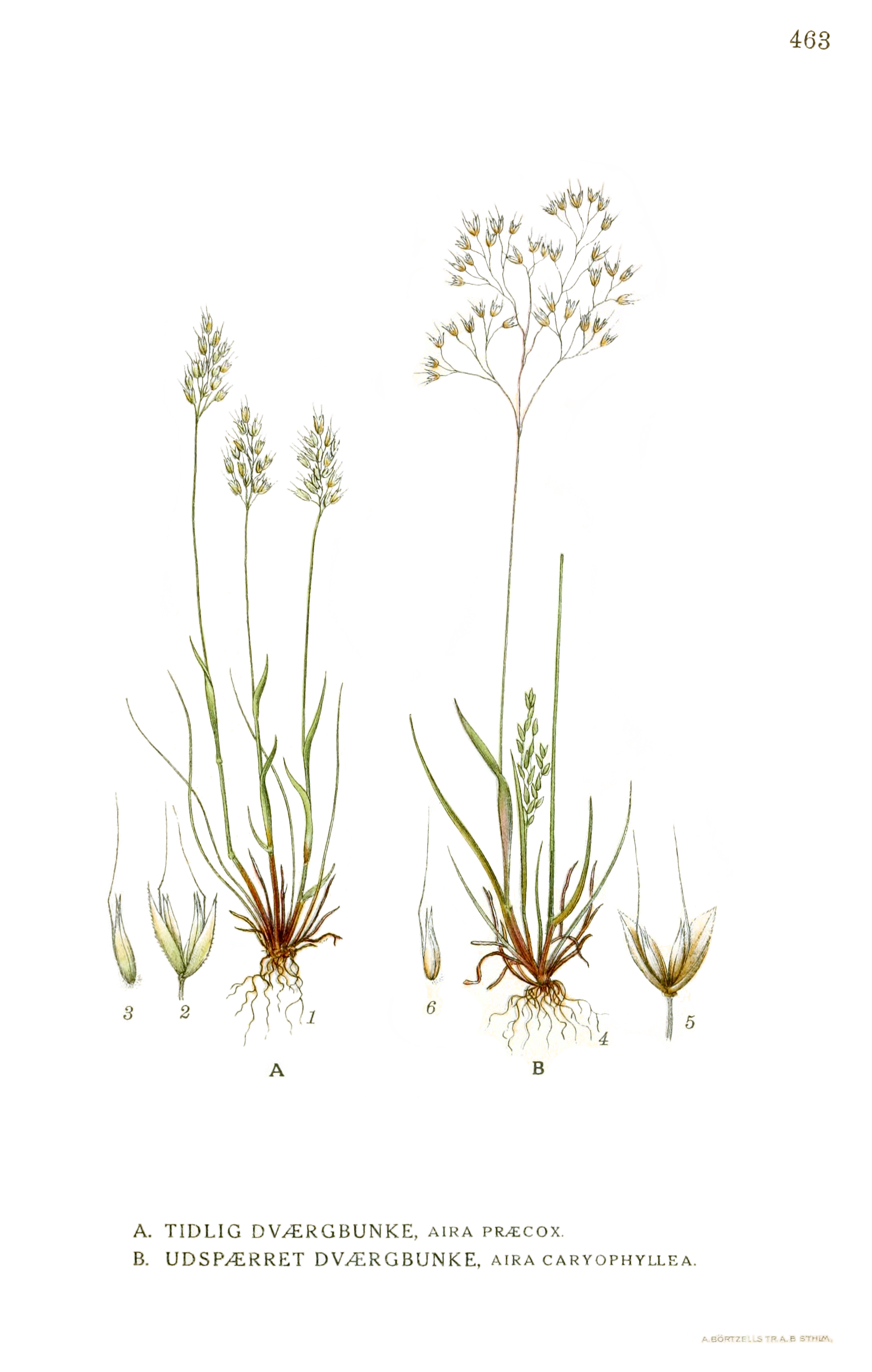 A. Aira praecox L. B. Aira caryophyllea L. s. l. Original Description A. TIDLIG DVÆRGBUNKE Aira præcoxB. UDSPÆRRET DVÆRGBUNKE Aira caryophyllea